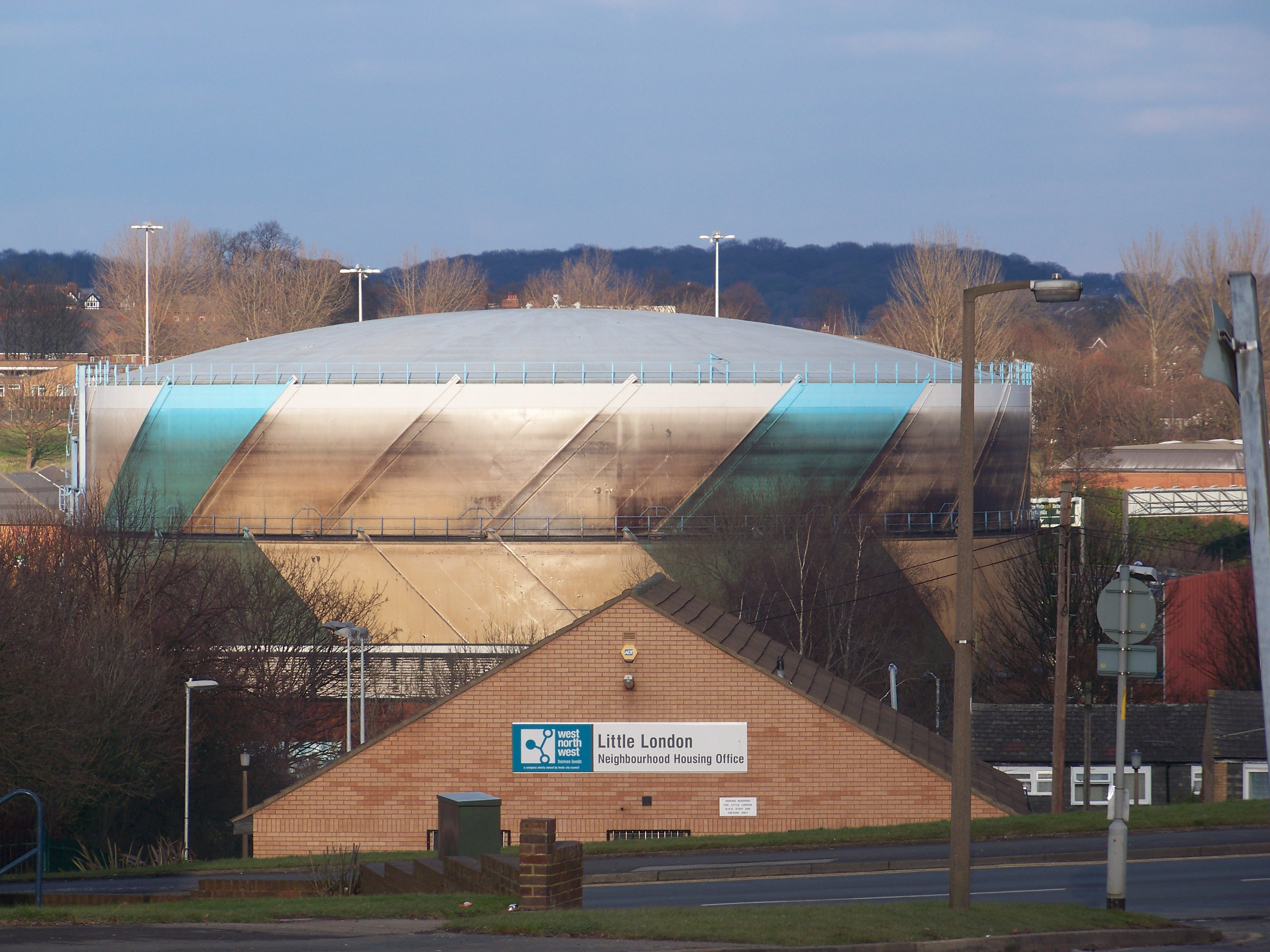 The Sheepscar Gasholder taken from Carlton Carr in the Little London area of Leeds. Little London Neighbourhood Housing Office can be seen in the foreground. Taken on the afternoon of Saturday the 20th of February 2010.